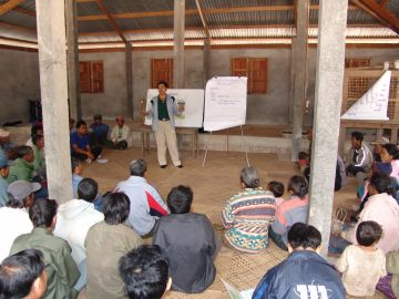 Image shows meeting taking place in Khammouane Province of Laos, March 2006, as part of the Lao Extension Approach. Meeting is being held in village temple, participants are farmers from from 4 villages, facilitator is from District Agriculture and Forestry Extension Office (DAFEO). These activities have been supported by Swiss Development Coorporation (SDC) with technical assistance from Helvetas. For more information see [1]. APB-CMX 03:04, 18 September 2006 (UTC)